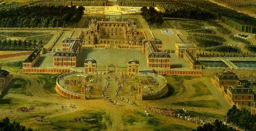 The arrival of the king in Versailles, detail from the painting by Pierre Patel (Versailles Museum)